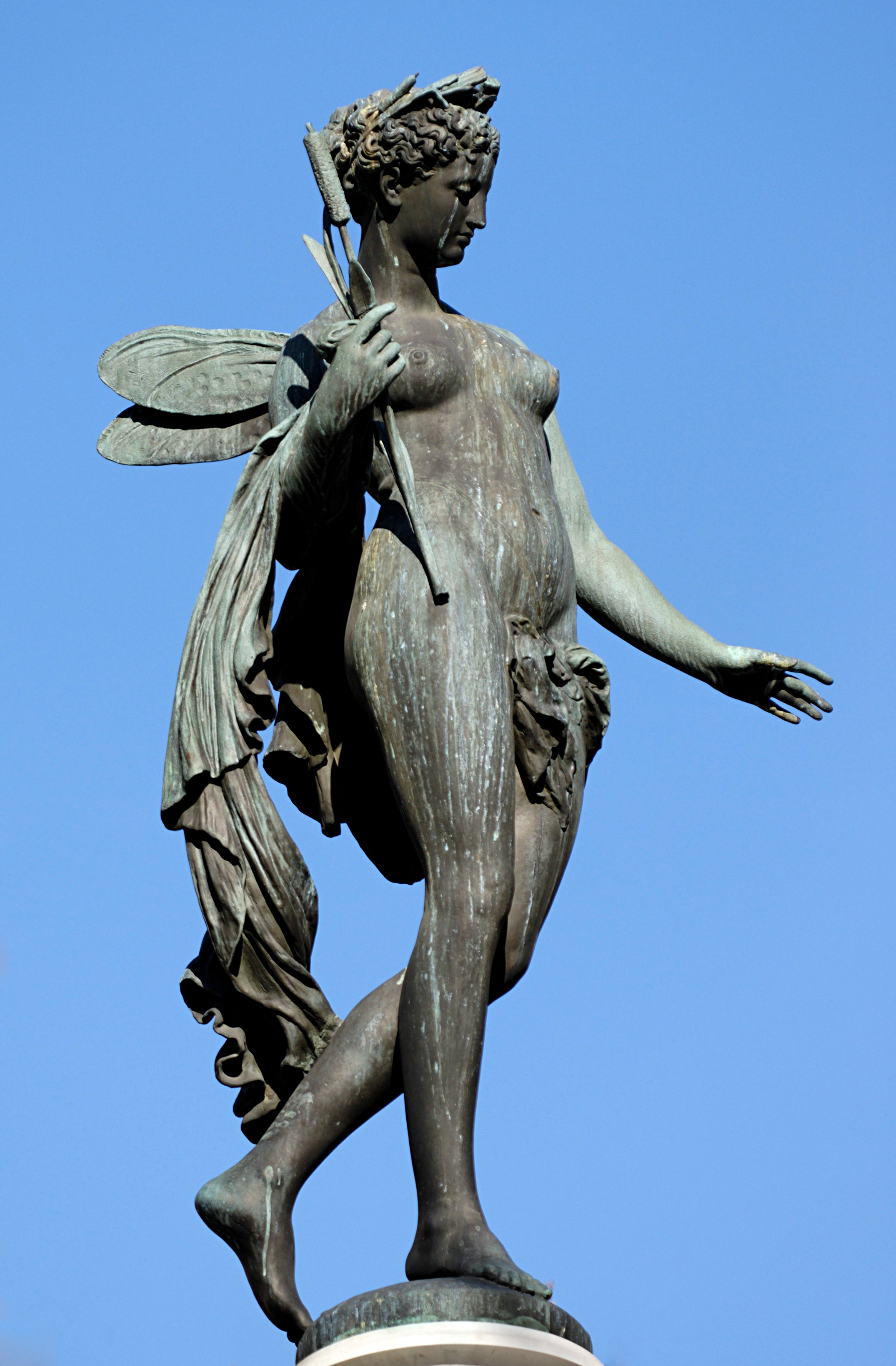 Fluvial Nymph, by Mathurin Moreau (French, 1822–1912), from a fountain on the Place du Théâtre-Français, near the Rue de Richelieu, in Paris. Bronze, 1874.